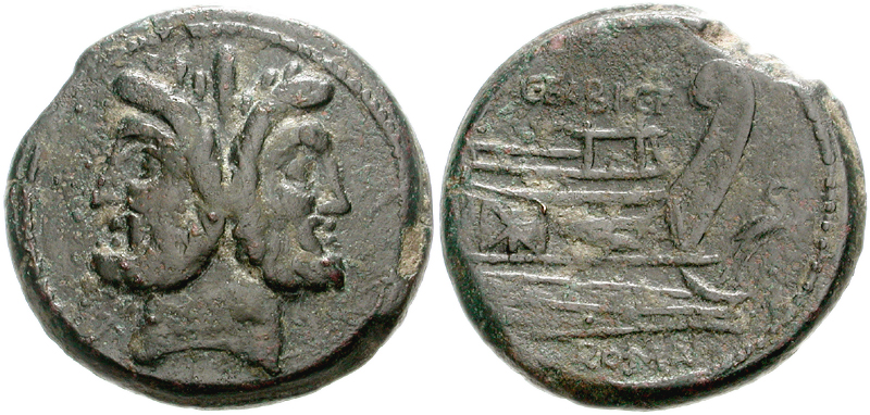 Coin (denomination as) issued by C. Fabius Hadrianus in 102 BC, depicting the Roman god Janus and the prow of a galley with stork. Uncial standard. Rome mint. Crawford 322/2; Sydenham 591. Rare; only five specimens known.